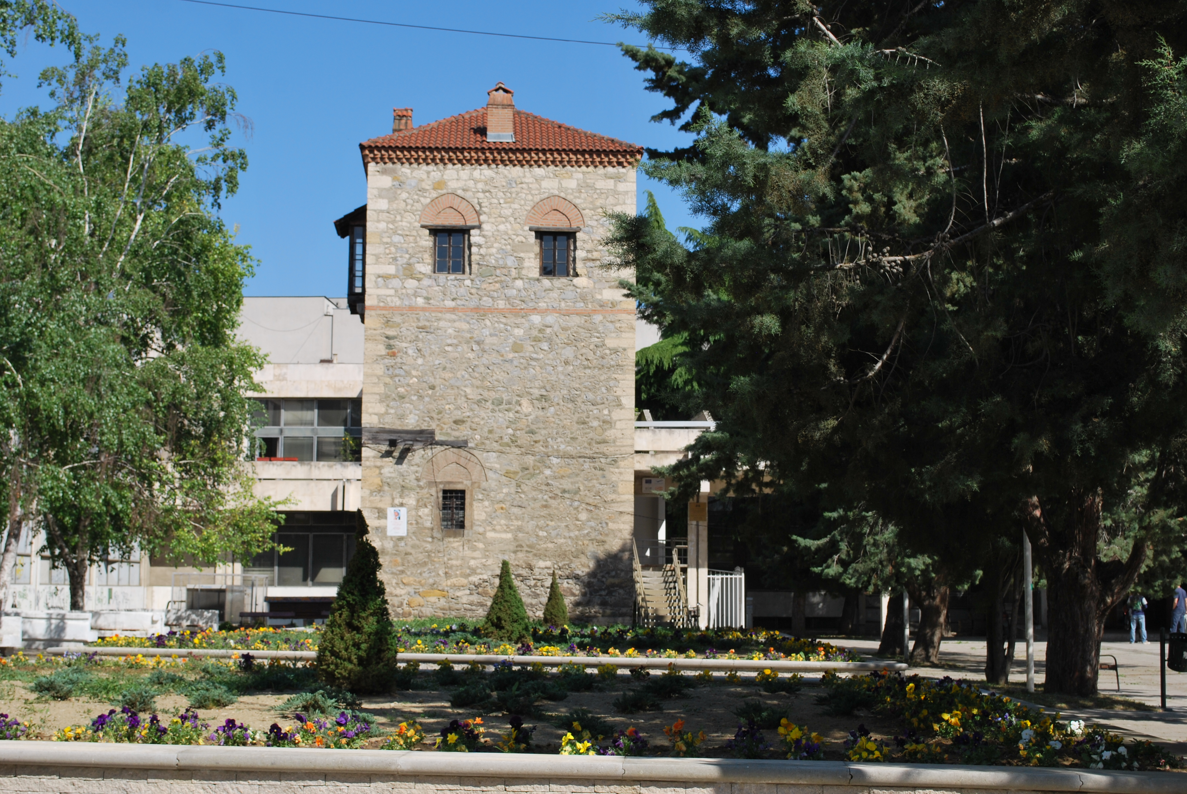 Bey's Tower in Skopje, Macedonia